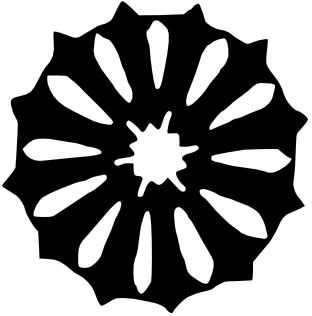 Symbol of Taaraism.